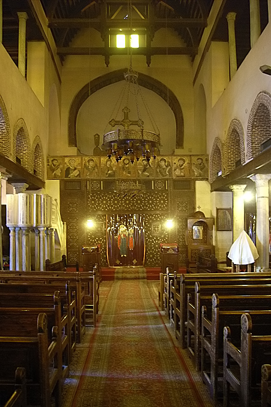 Nave of the Church of St. Sergius and Bacchus, Old Cairo, Egypt